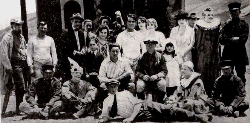 Still of the actors and production crew for the American film serial King of the Circus (1920), on page 68 of the September 11, 1920 Exhibitors Herald.